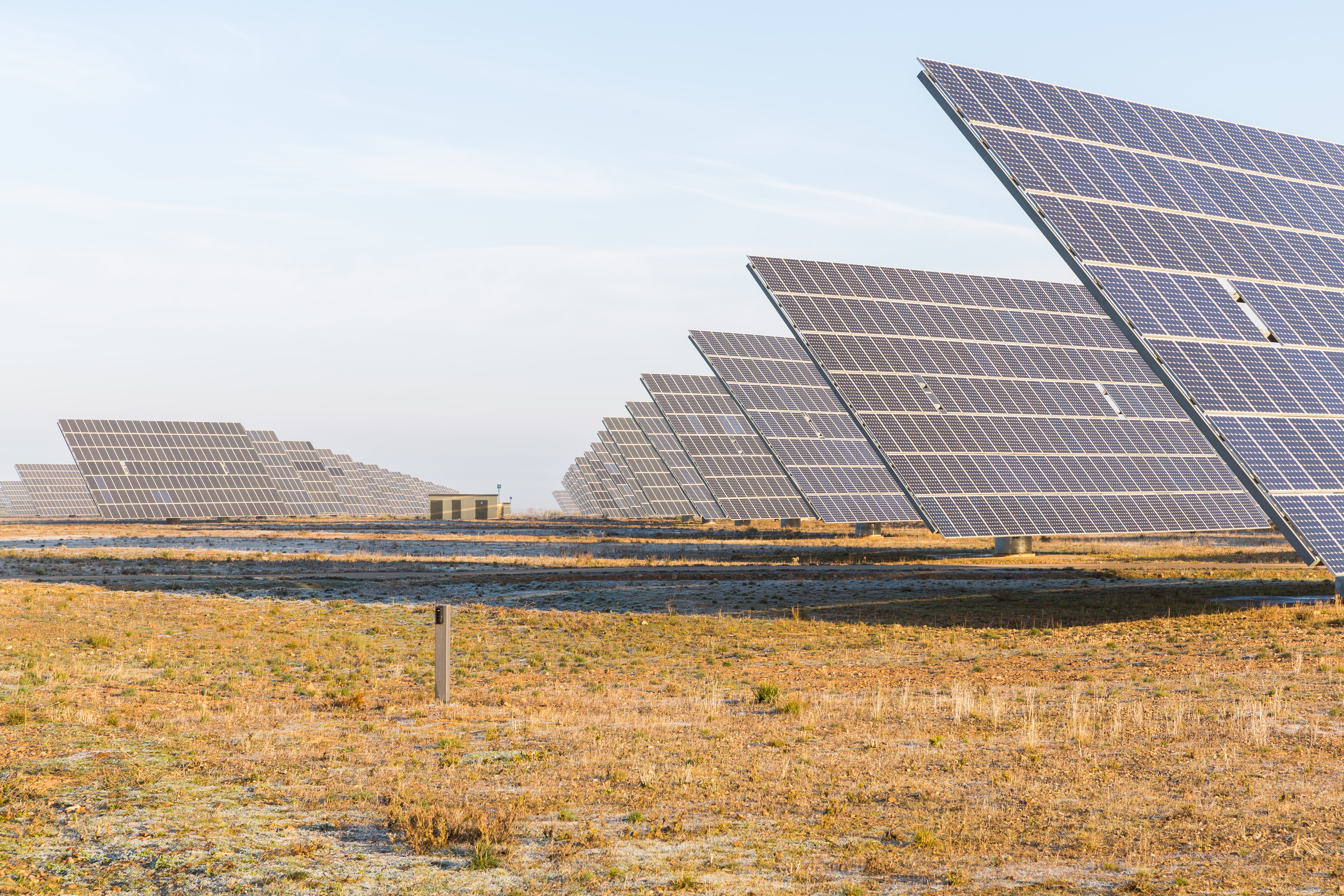 Photovoltaic power station in Cariñena, Zaragoza, Spain